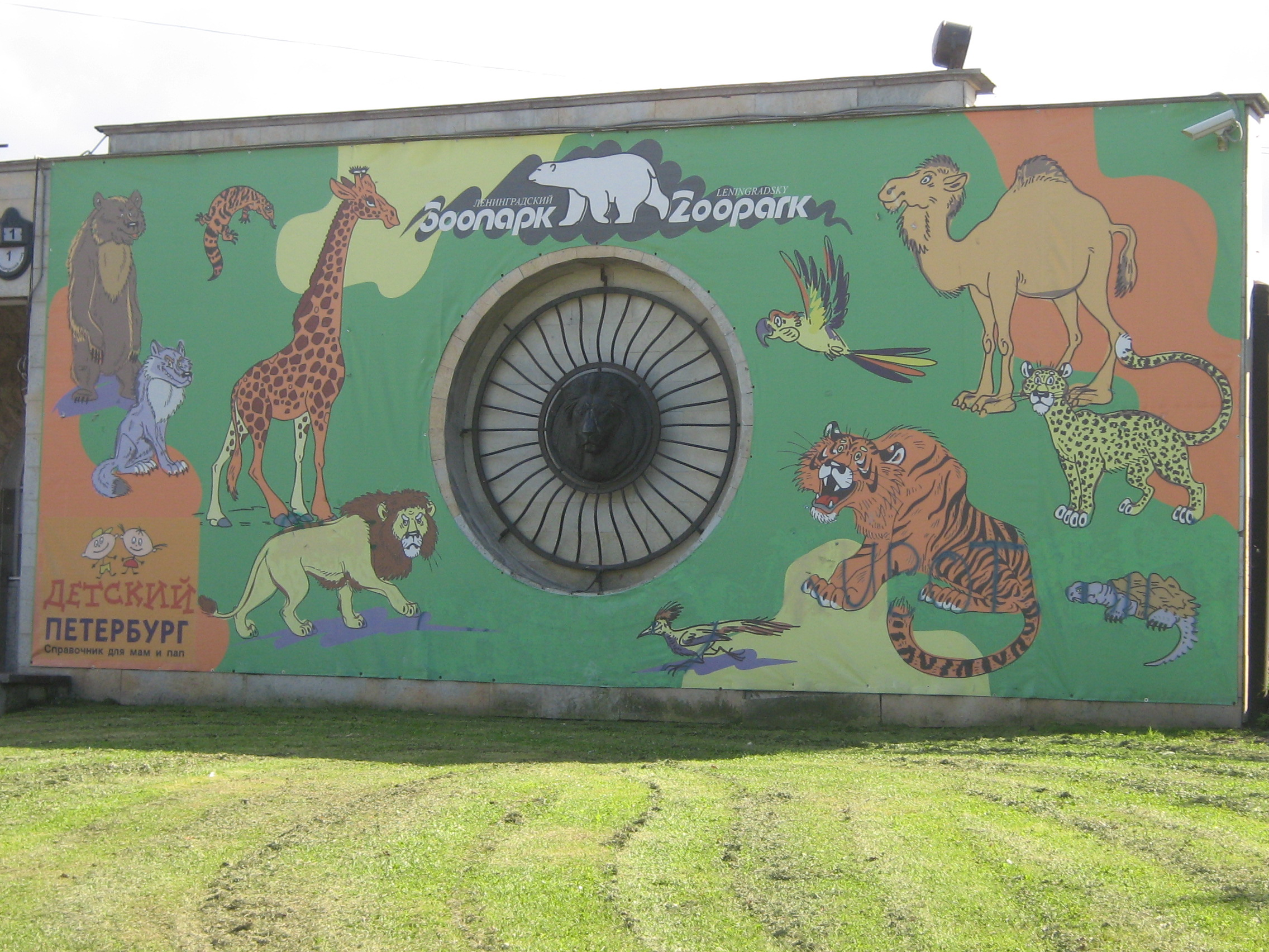 Saint Petersburg (Russia), Alexander Park. Leningrad Zoo.